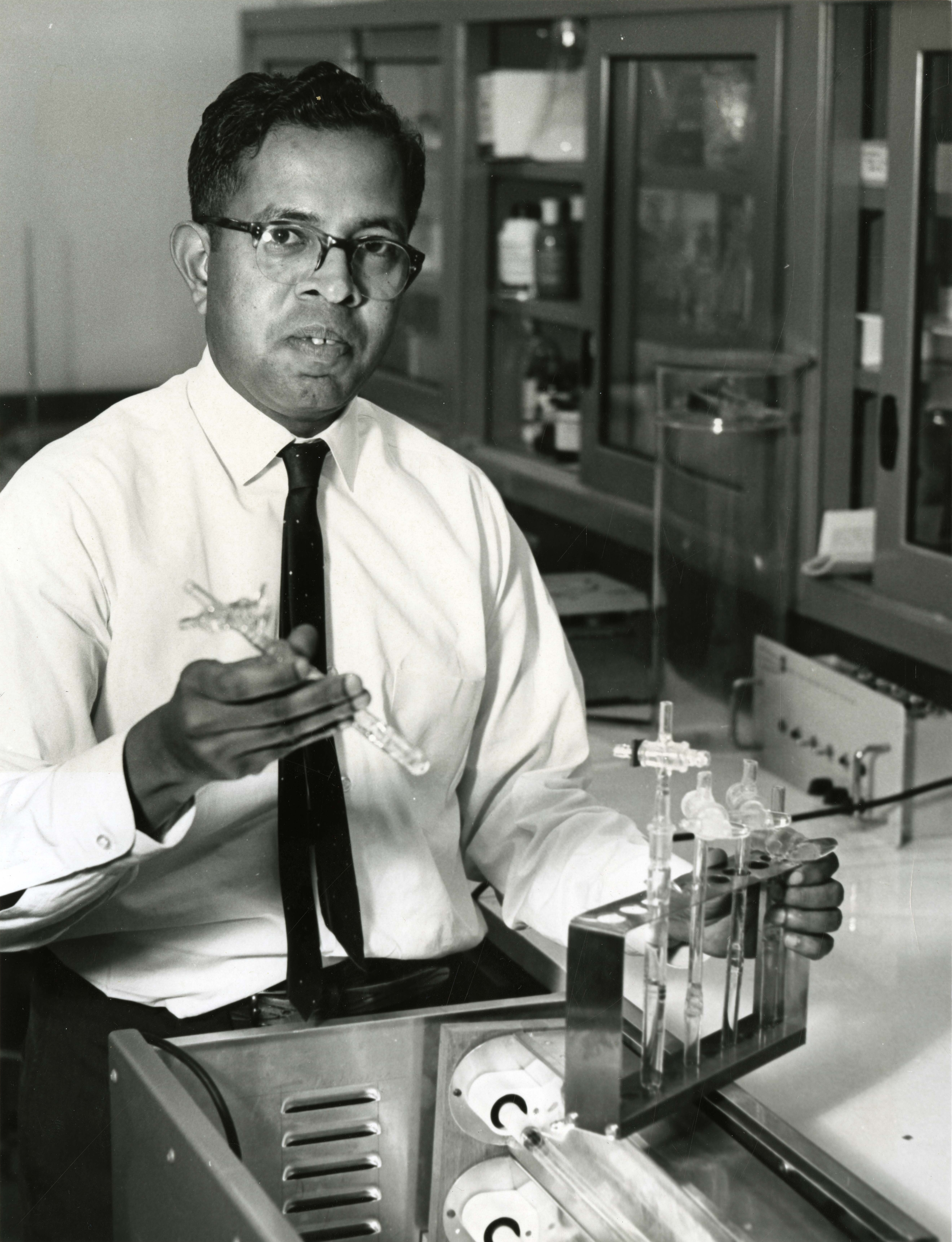 Subject: Ponnamperuma, Cyril 1923-1994 Ames Research Center Type: Black-and-white photographs Date: 1963 Topic: Molecular evolution Local number: SIA Acc. 90-105 [SIA2010-2414] Summary: Cyril Ponnamperuma (1923-1994) of the Exobiology Division at NASA's Ames Research Center points out the simple laboratory equipment with which he artificially produced ATP, the source of energy for all forms of life Cite as: Acc. 90-105 - Science Service, Records, 1920s-1970s, Smithsonian Institution Archives Persistent URL: Repository:Smithsonian Institution Archives View more collections from the Smithsonian Institution.